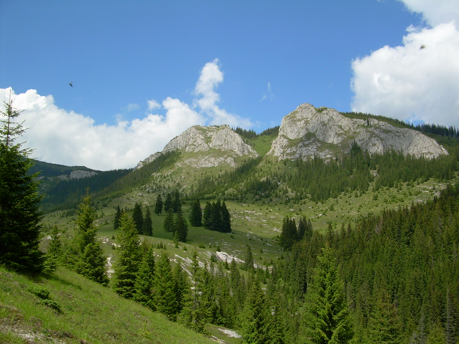 Pietrele Albe, Vladeasa, Apuseni, Romanian West Carpathians, Romania